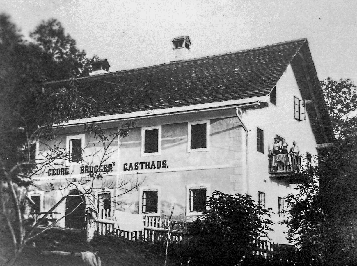 Georg Brugger's Inn in Millstatt (Millstätter See), district Spittal an der Drau in Carinthia / Austria / European Union